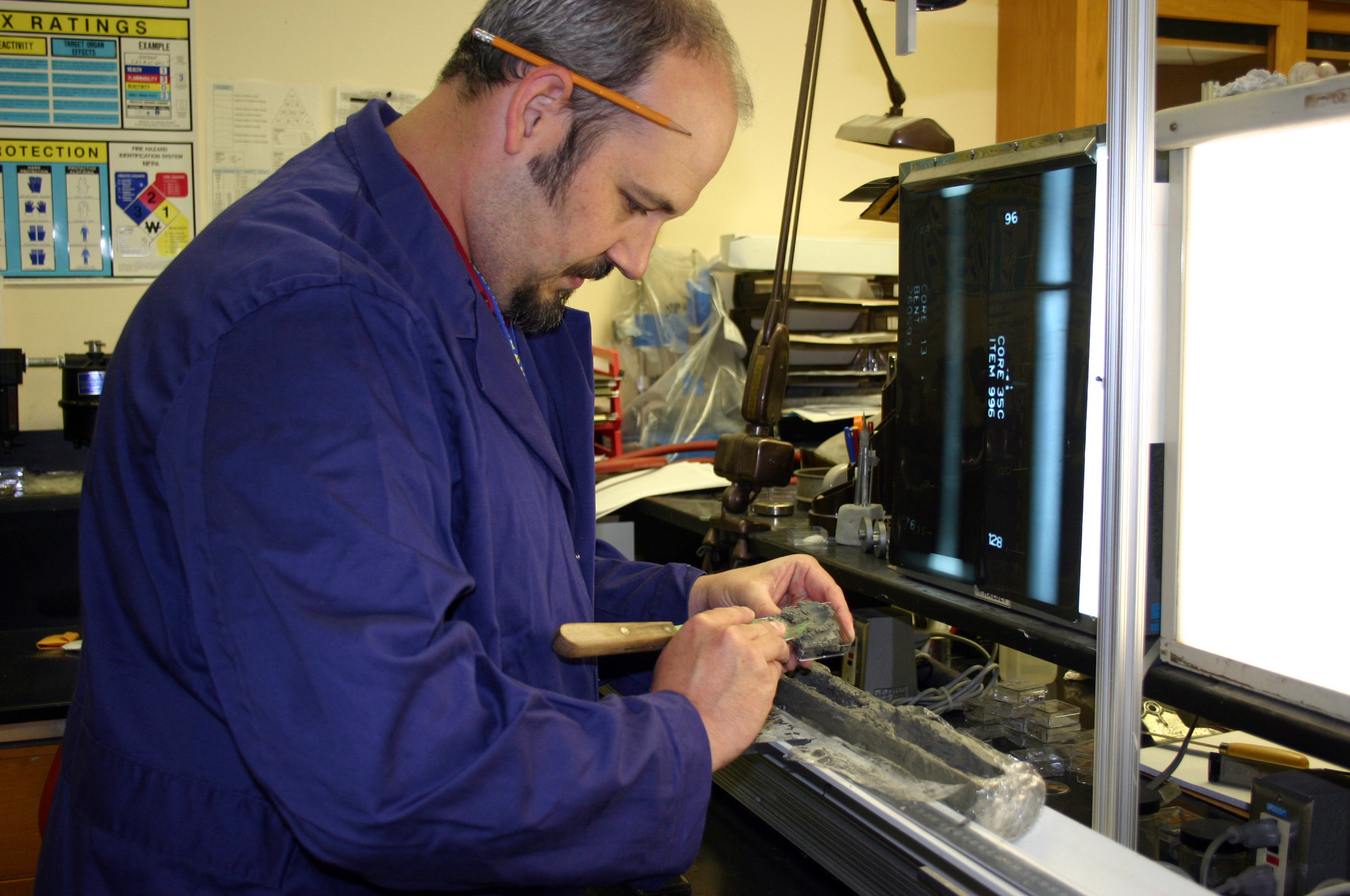 STENNIS SPACE CENTER, Miss. (March 17, 2009) Navy civilian Patrick Bourne, a geologist at the Naval Oceanographic Office, takes a sediment archive sample in one of the command's geology labs. Naval Oceanographic Office geologists analyze the textural, chemical, physical, acoustic and engineering properties of ocean bottom sediment samples and apply the resultant characteristics data to Navy requirements. Because of their ongoing collection and analysis efforts, the laboratory harbors one of the most extensive and respected collections of marine sediments data in the world. (U.S. Navy photo by Public Affairs Specialist Shannon M. Breland/Released)